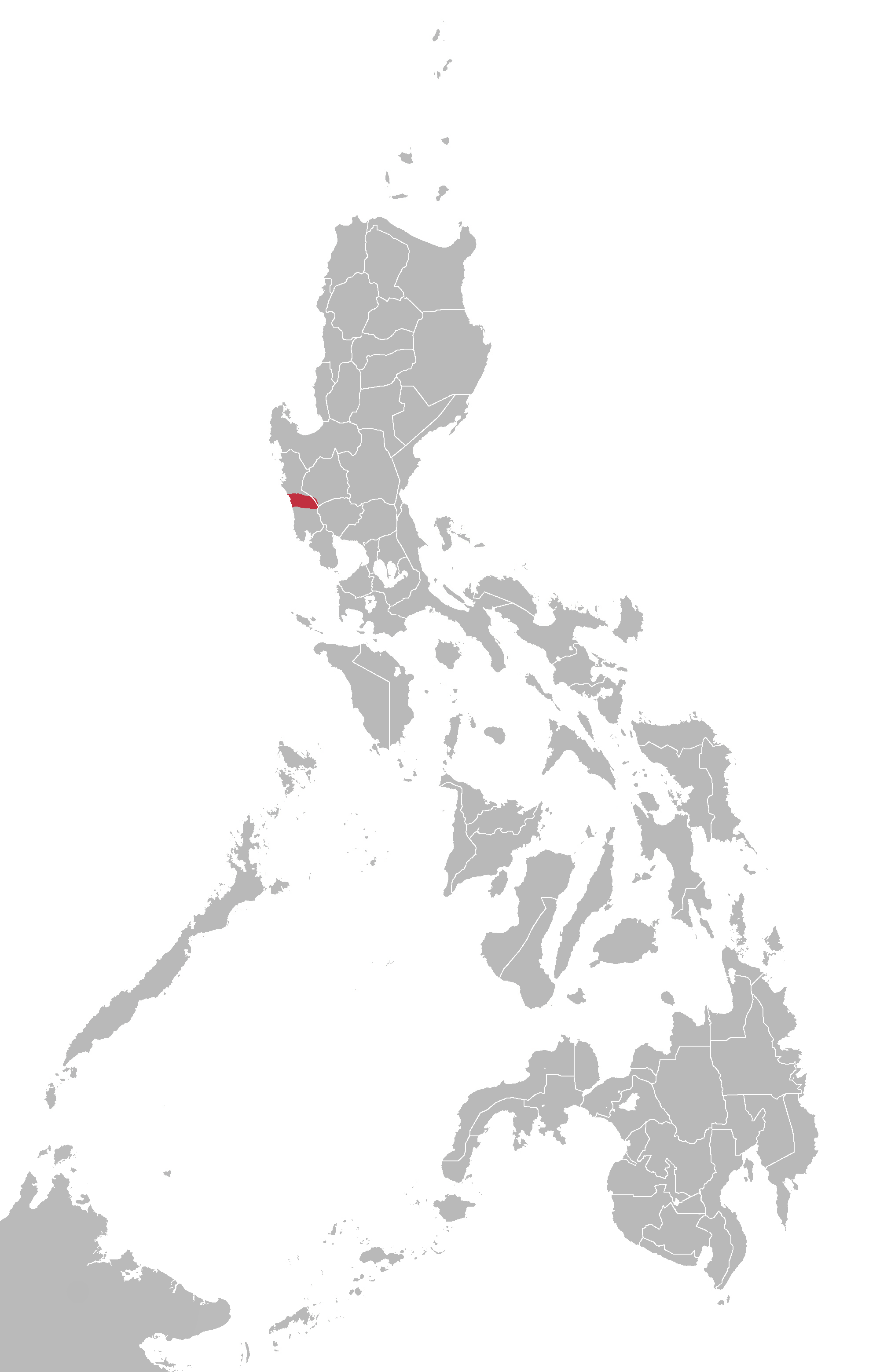 Botolan Sambal language map based on Ethnologue maps